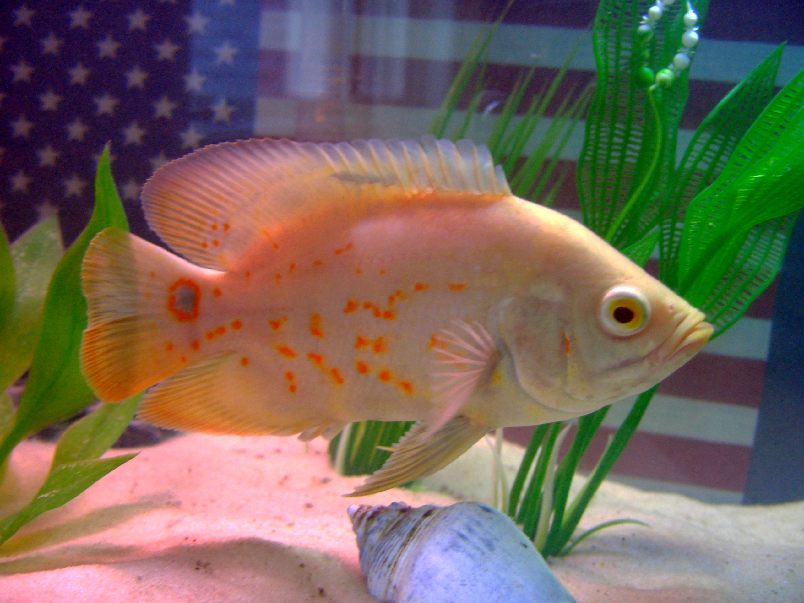 An albino tiger oscar by the name of Barry.